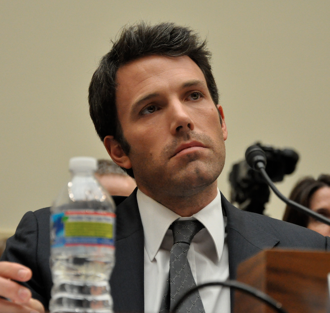 Ben Affleck testifying to Congress on the Democratic Republic of Congo